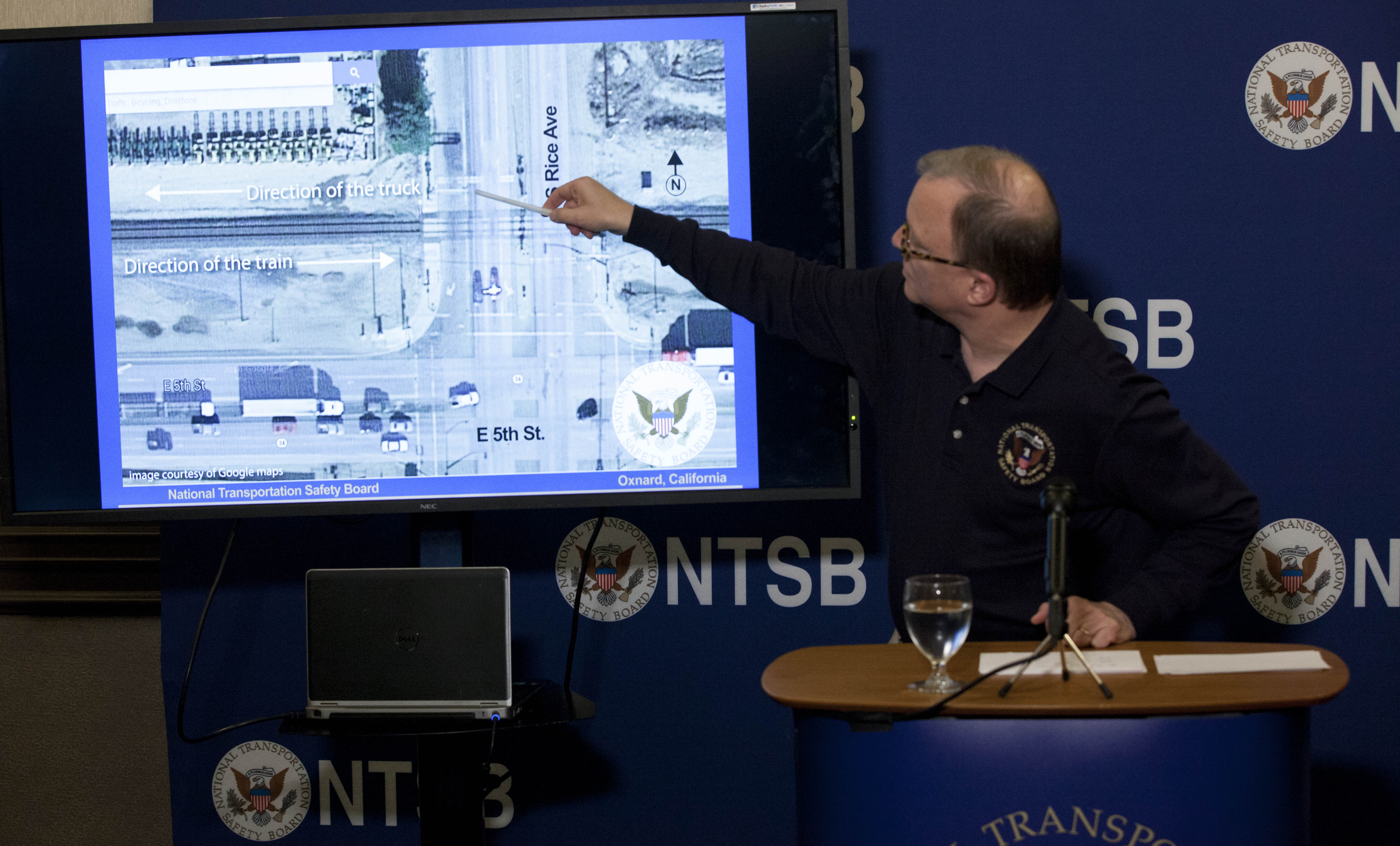 NTSB Board Member Robert Sumwalt describes accident scene during final media briefing on the CA grade crossing accident in Oxnard.